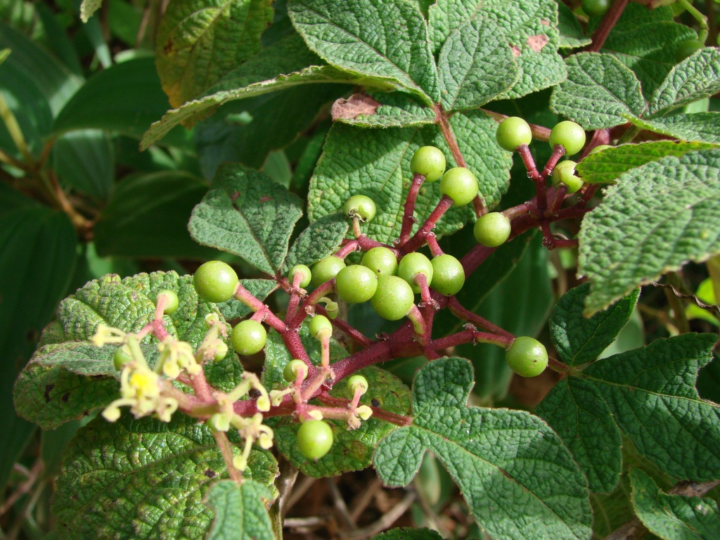 Fruits of Cissus duarteana